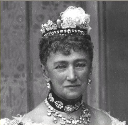 Portrait of Queen Louise of Denmark (1817-1898), née Louise of Hesse-Cassel